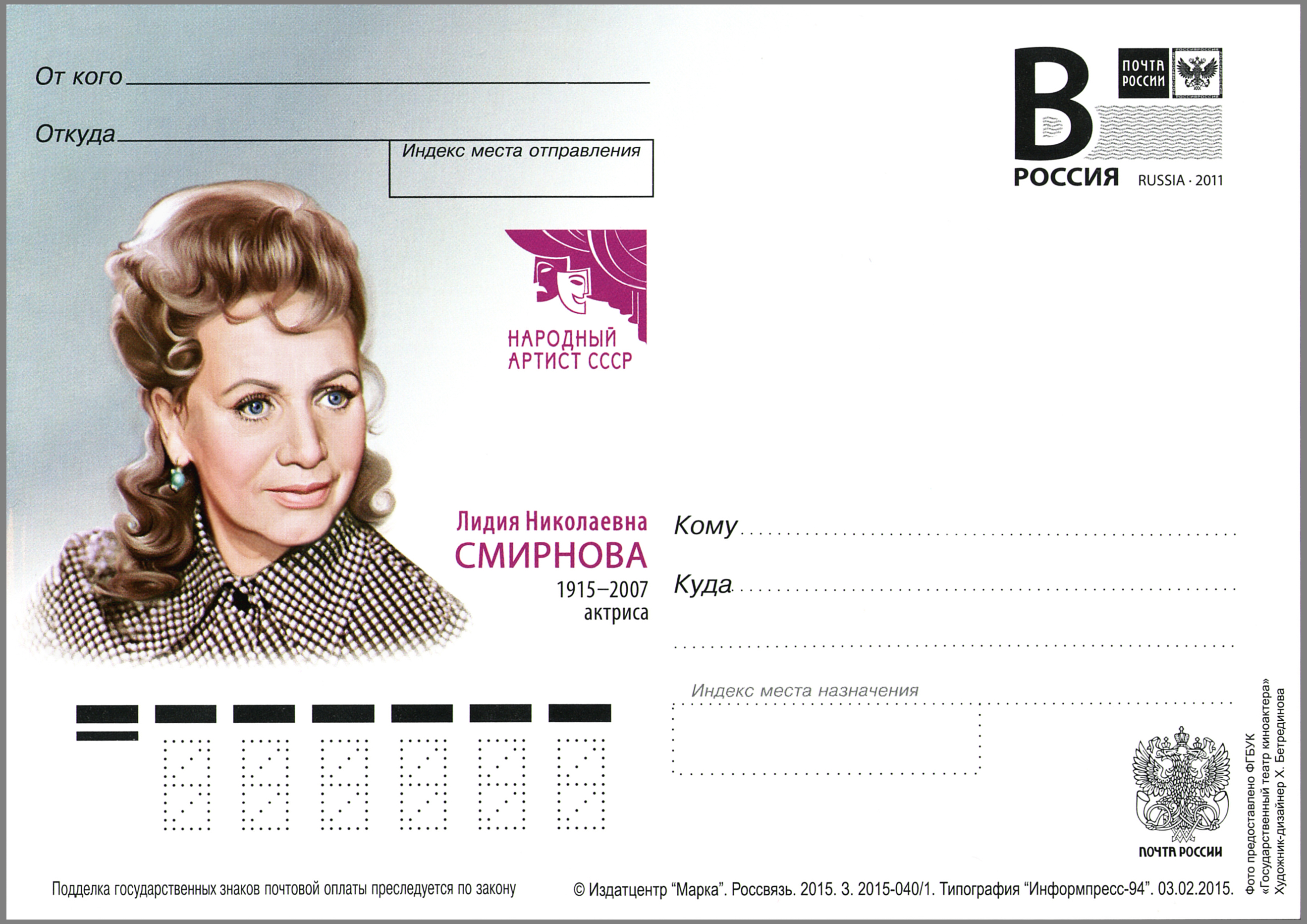 Lidiya Smirnova (1915—2007), a Soviet and Russian theatre and cinema actress. The postal stationery card with the imprinted definitive non-denominated stamp “Letter B”, Russia, 12 February 2015, PTC Marka Catalogue No. 2015-040/1. Coated paper. Offset printing. Size of the postal card: 105×148 mm. Print run: 5,000 The photo portrait of Lidiya Smirnova from the archive of the State Theater of Cinema Actor.